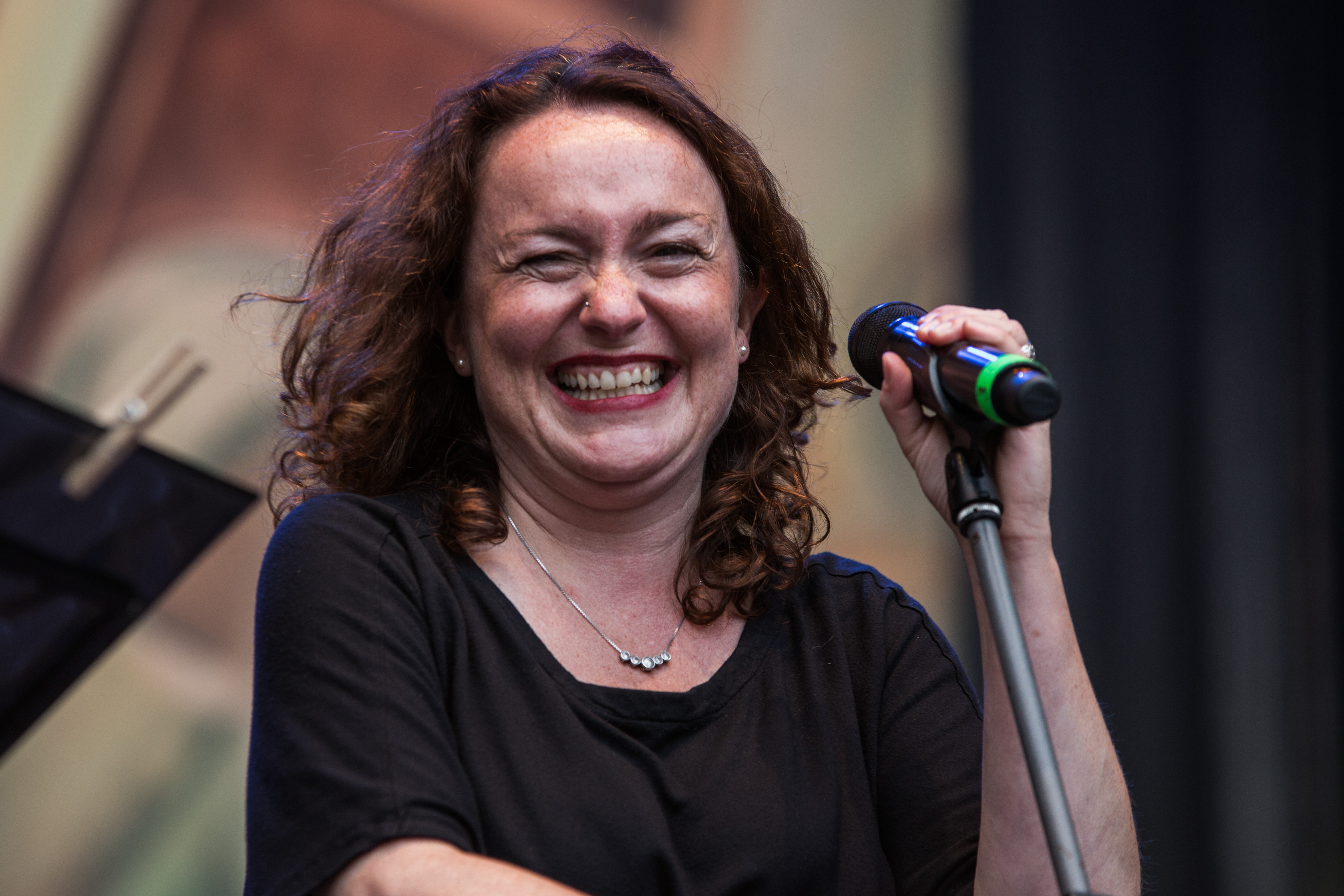 Festivalsommer This photo was created with the support of donations to Wikimedia Deutschland in the context of the CPB project "Festival Summer".